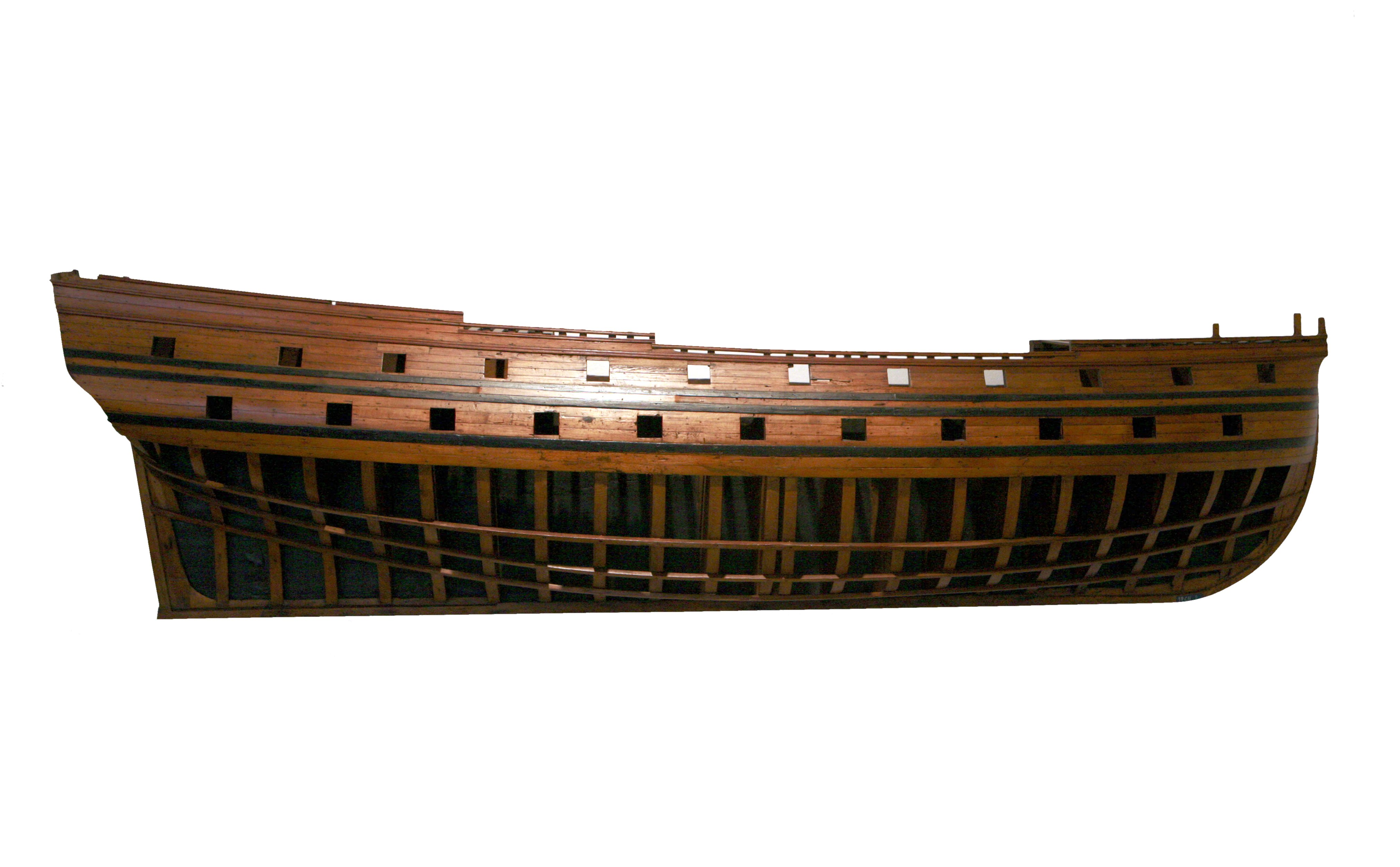 Half-hull of a 46-gun ship of the line (22 18-pounders, 24 8-pounders). The artillery layout matches the ship Tigre, build from 1724 in Toulon, after plans by Blaise Coulomb On display at Toulon naval museum. Access number 19 CN 9